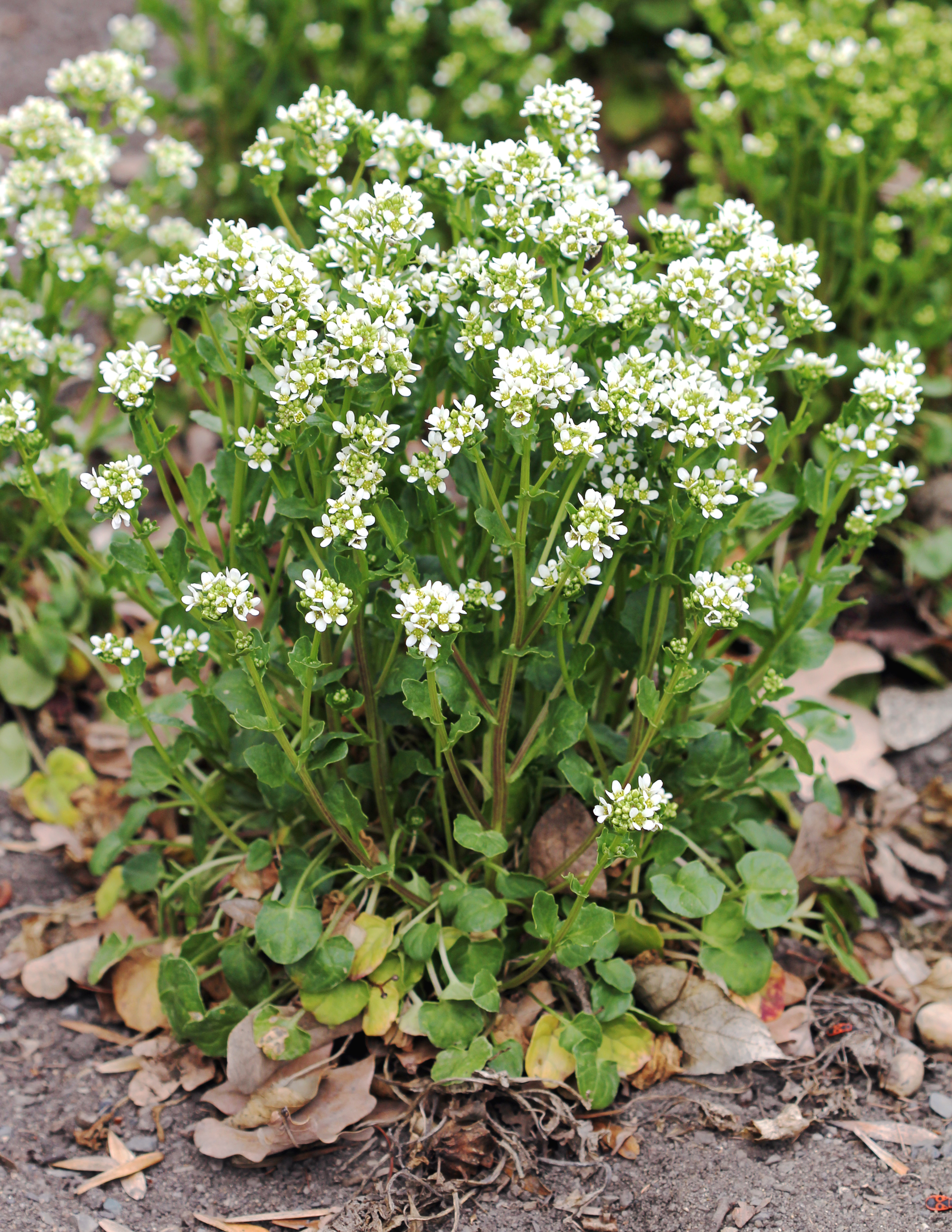 Flowering plants Cochlearia officinalis, (Cochlearia officinalis) from the Botanical Gardens of Charles University, Prague, Czech Republic